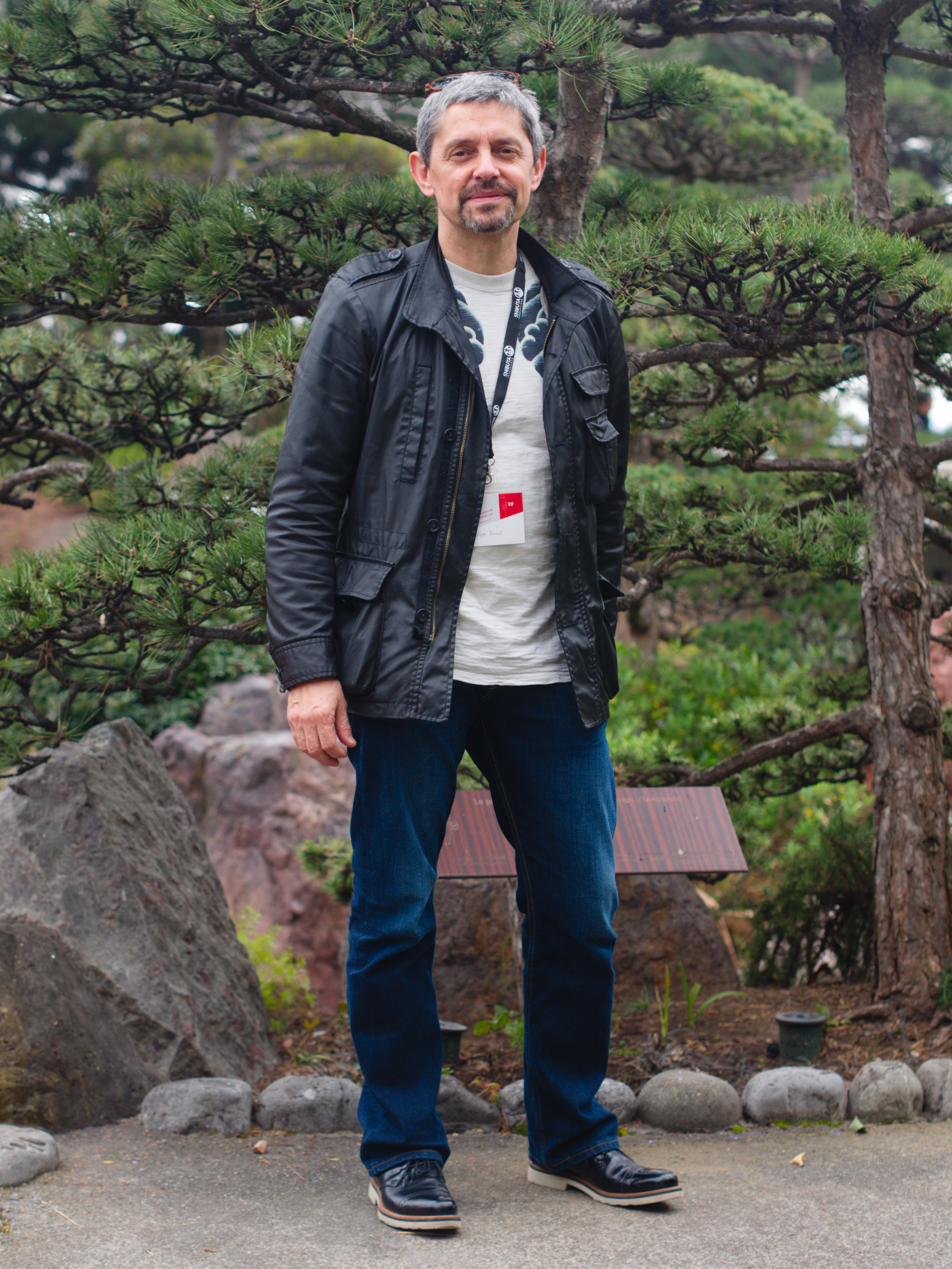 photograph taken at the 2015 edition of the "Monaco Anime Game International Conferences" (MAGIC) organized by Shibuya International in Monaco.